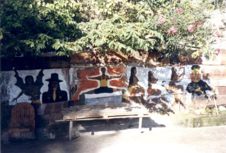 Wall painting in Baucau/Timor-Leste